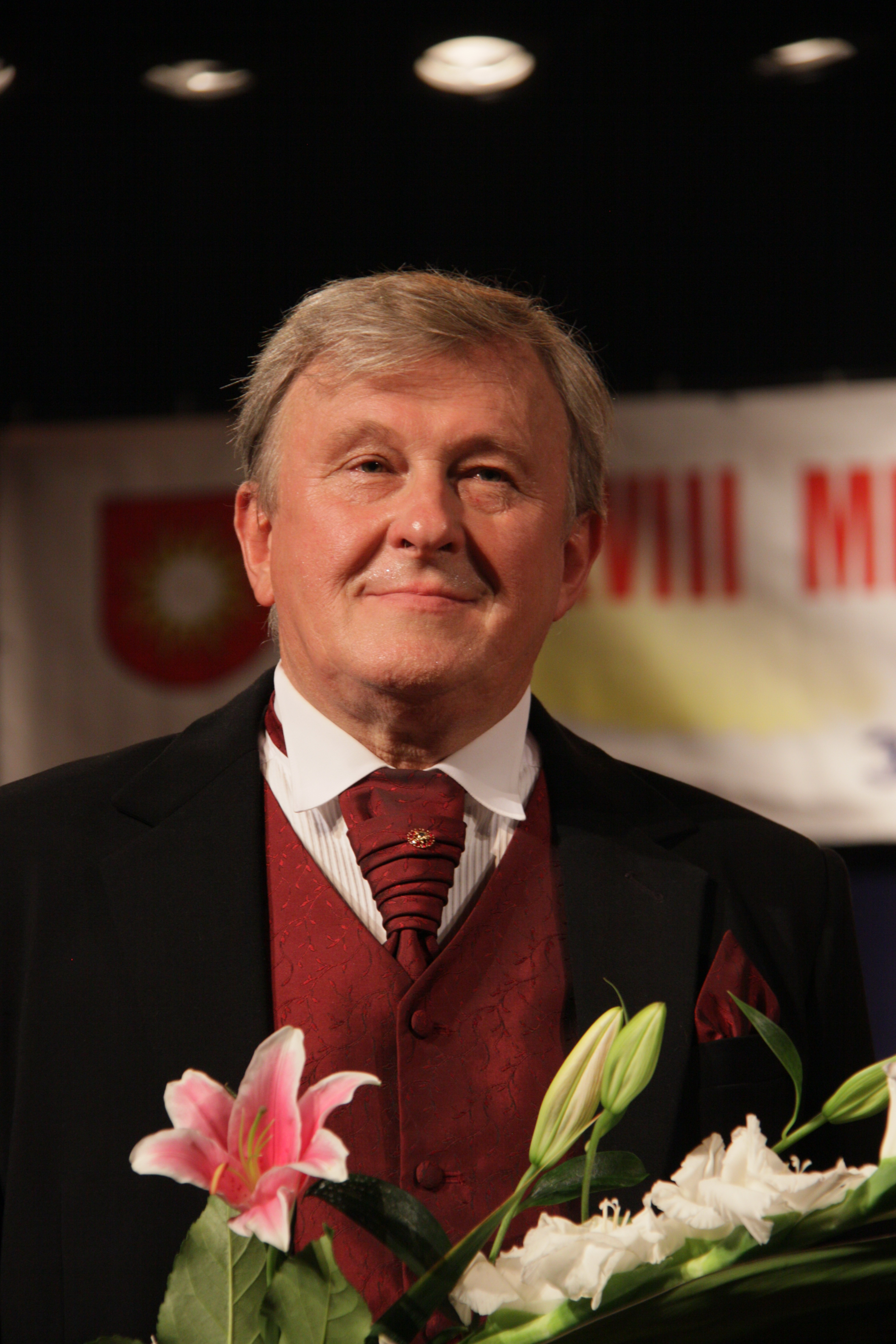 Zbigniew Macias - Polish opera singer (baritone), and musical, actor and director. Busko-Zdroj, XVIII MFM Krystyny Jamroz, 7 July 2012